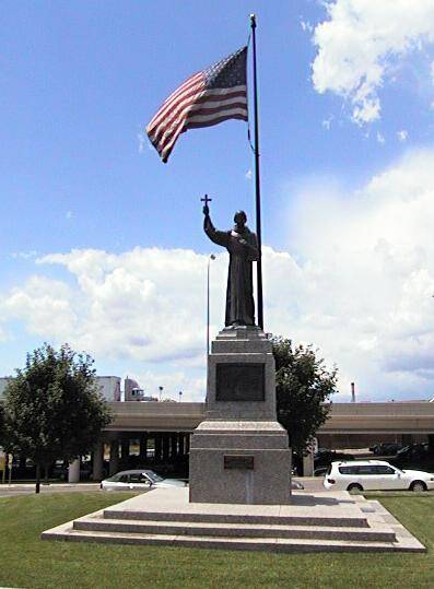 A statue of Louis Hennepin in Minneapolis, Minnesota